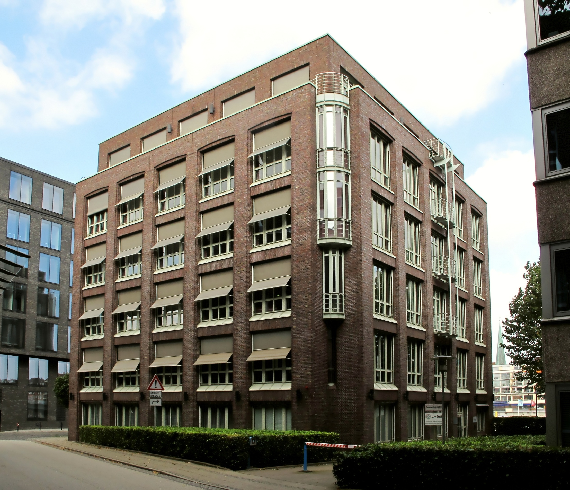 Office building Herrlichkeit 1 (2014-09-13)